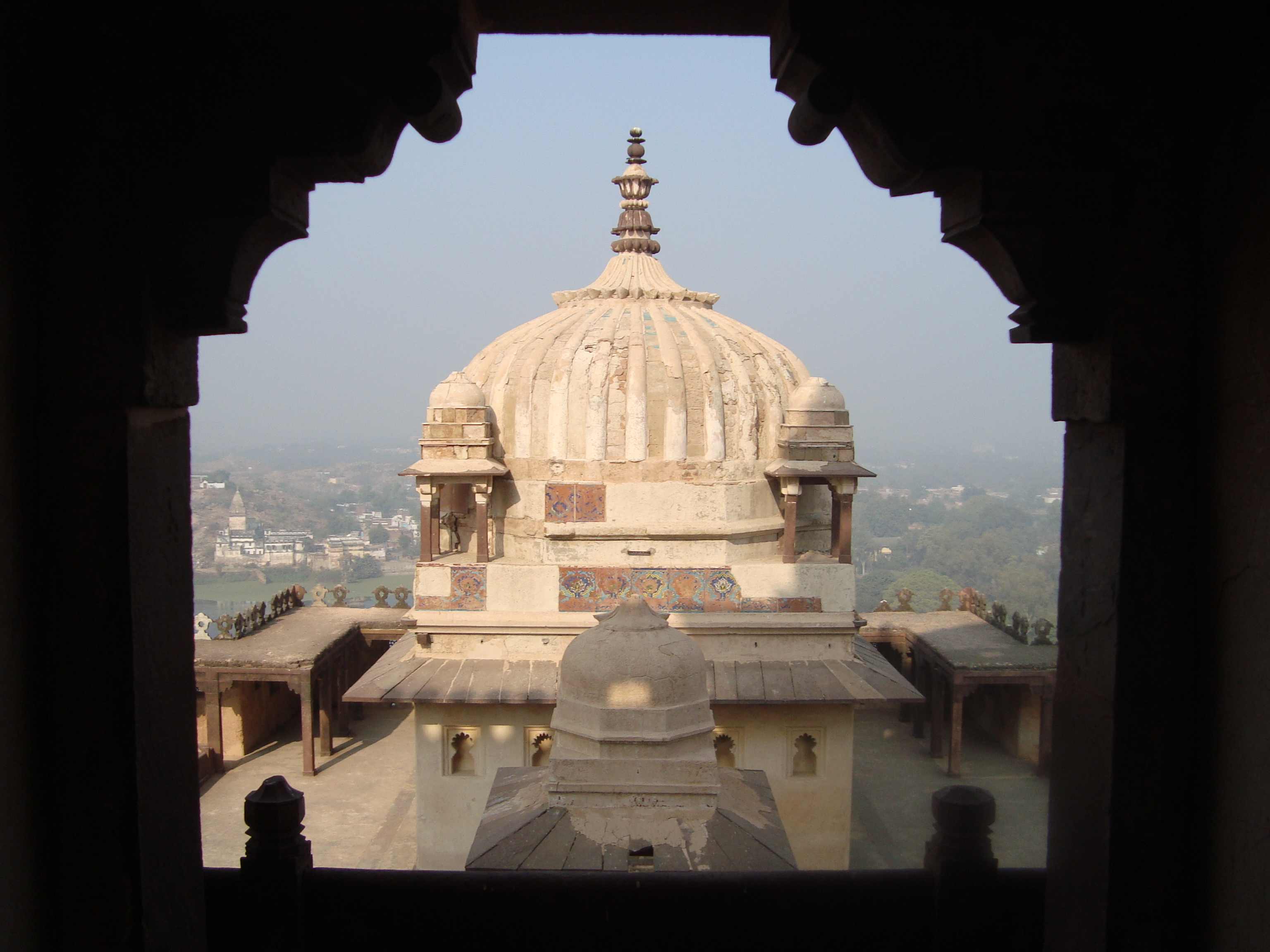 View from the top floor.